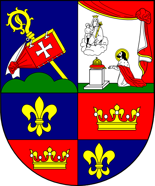 Coat of arms (shield only) of Sigismund Schultes, abbot of Schottenstift (Scottish Abbey), Vienna and Telky Abbey, Hungary (1832 - 1861). Based on ZELENKA, Aleš: Die Wappen der wiener Schottenäbte, p. 27. See also presbytery arch in Schottenkirche, Vienna